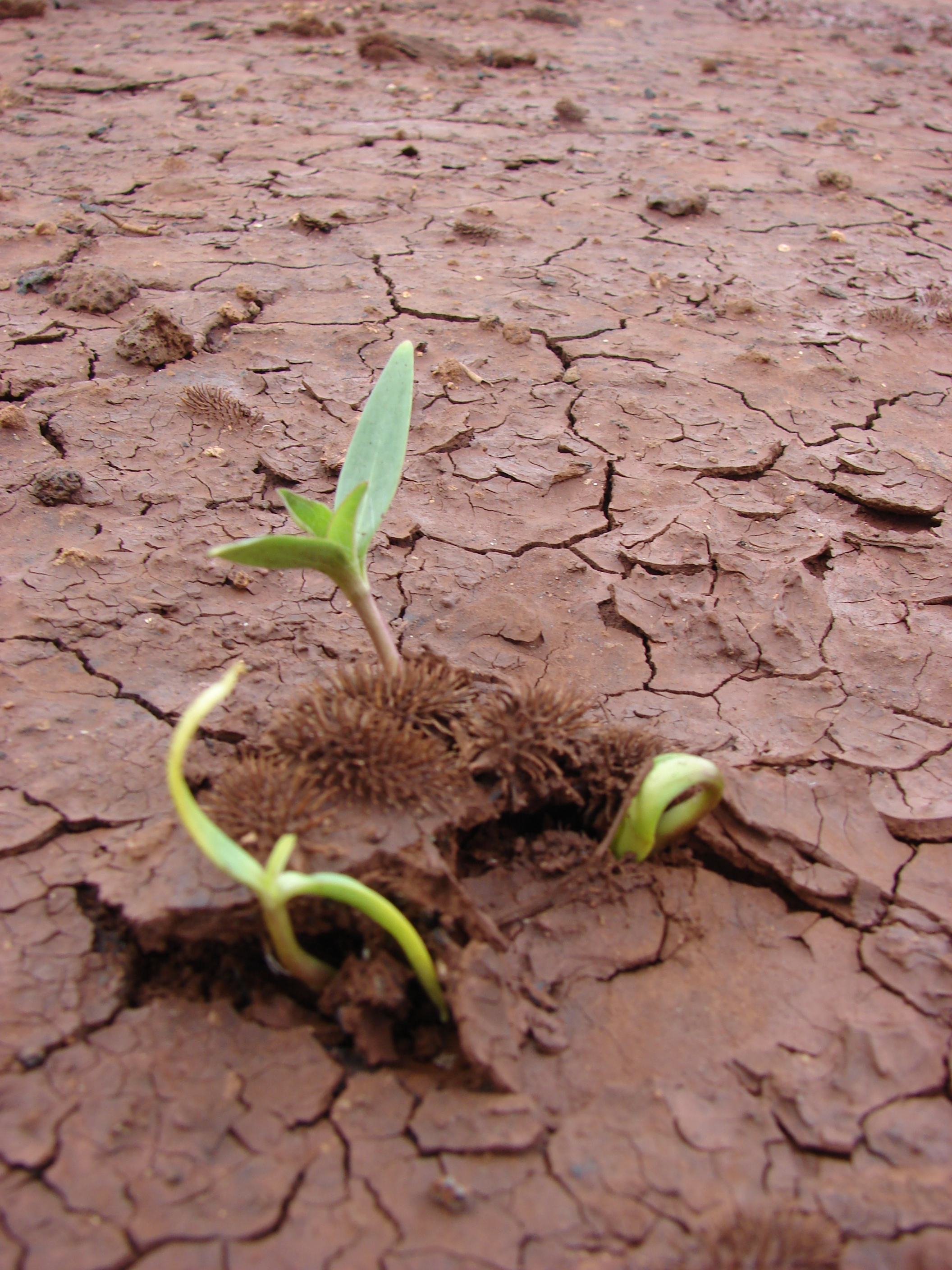 Xanthium strumarium var. canadense (seedlings just coming up). Location: Kahoolawe, Lua Kealialalo